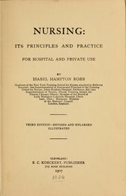 This book was one of the first texts to be written on nursing in America. It was crucial in establishing nursing as a legitimate and necessary profession in the medical field.